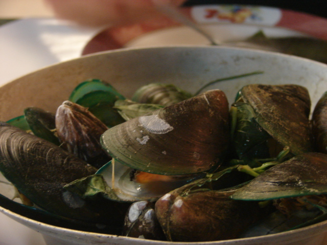 Boiled Green Mussles (കല്ലുംമ്മേക്കായ) before frying